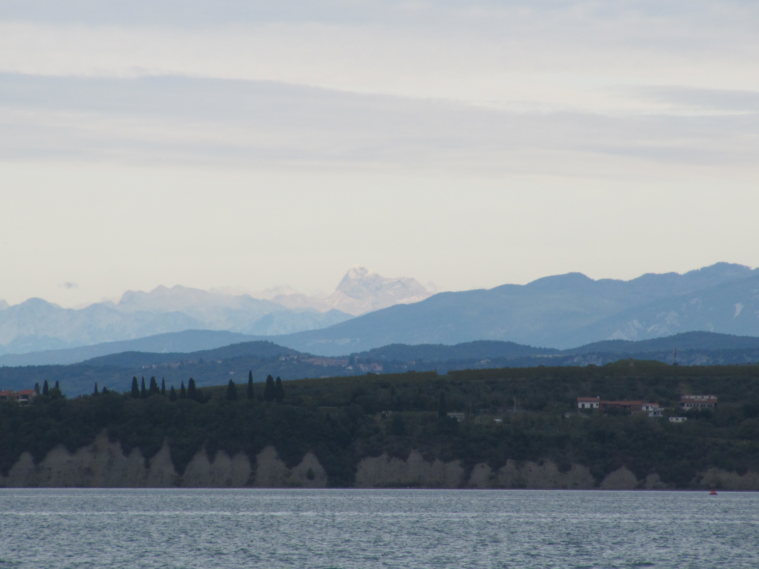 Triglav from Koper bay